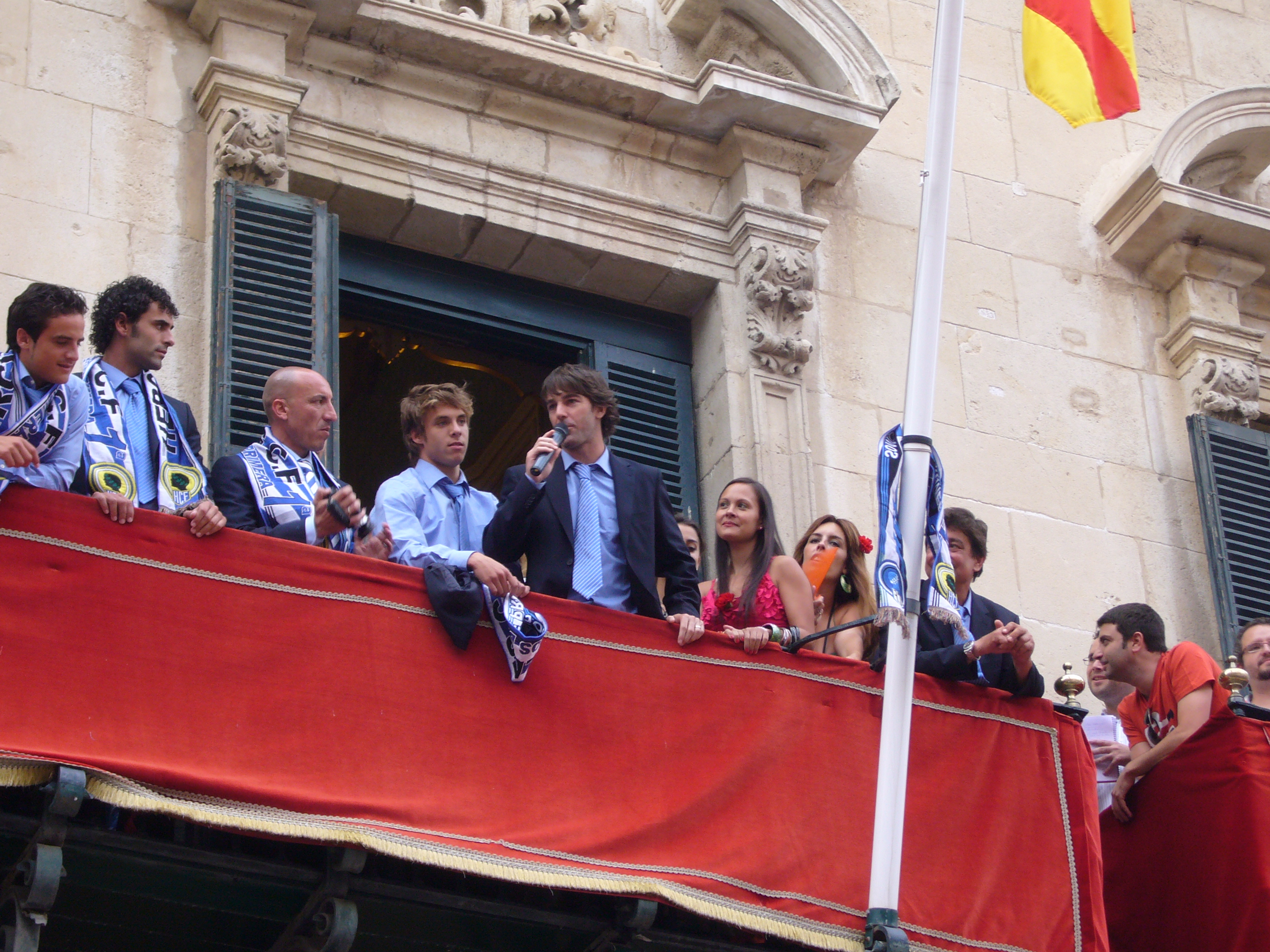 Abraham Paz (with microphone in hand) on the balcony of the City of Alicante during the celebrations for the rise of Hercules C. F. to First division in 2009/10 season.